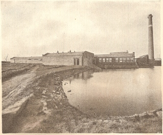 Picture of a Mill.